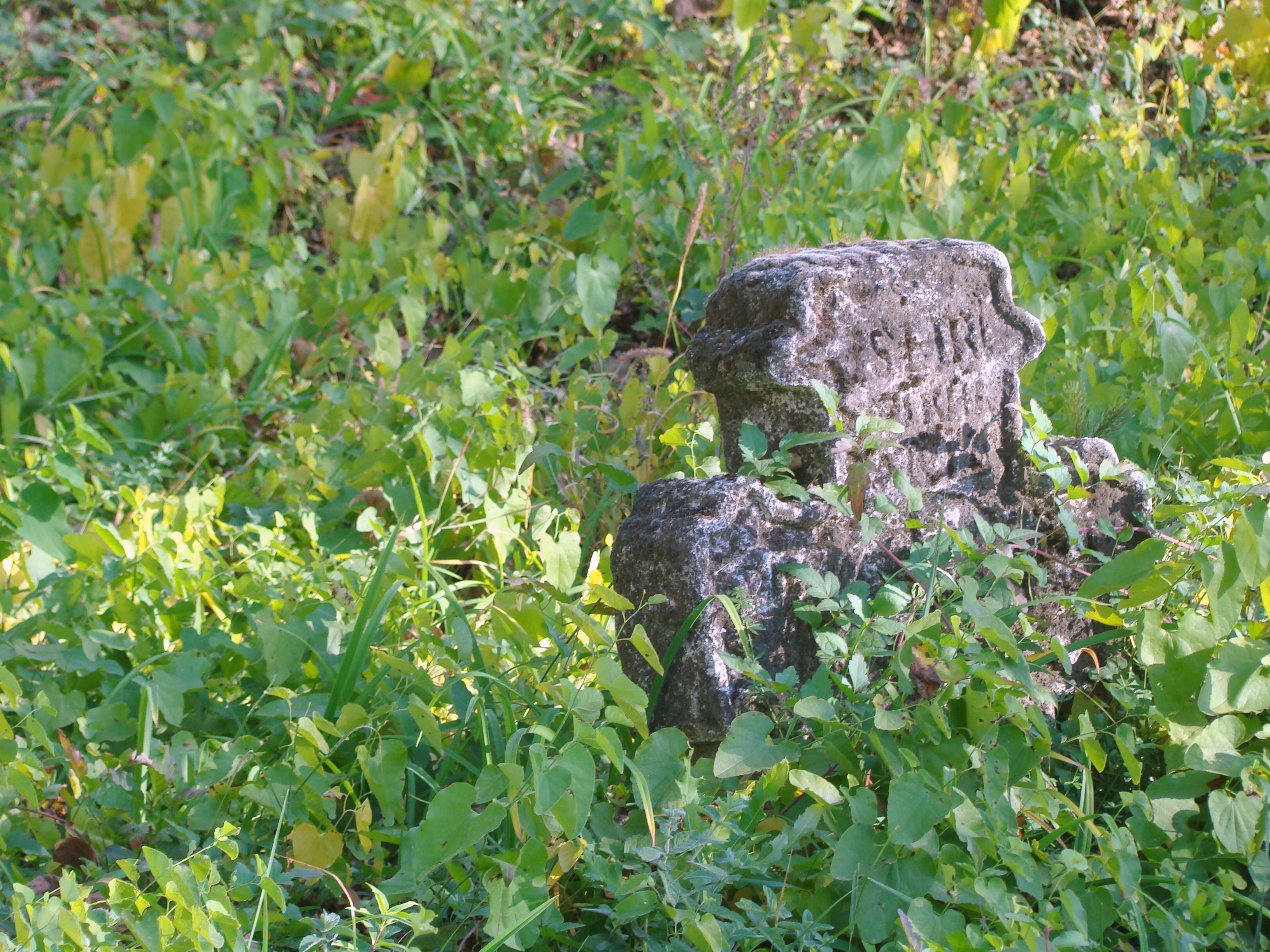 Saint George's wooden church in Valea Mânăstirii, Gorj county, Romania